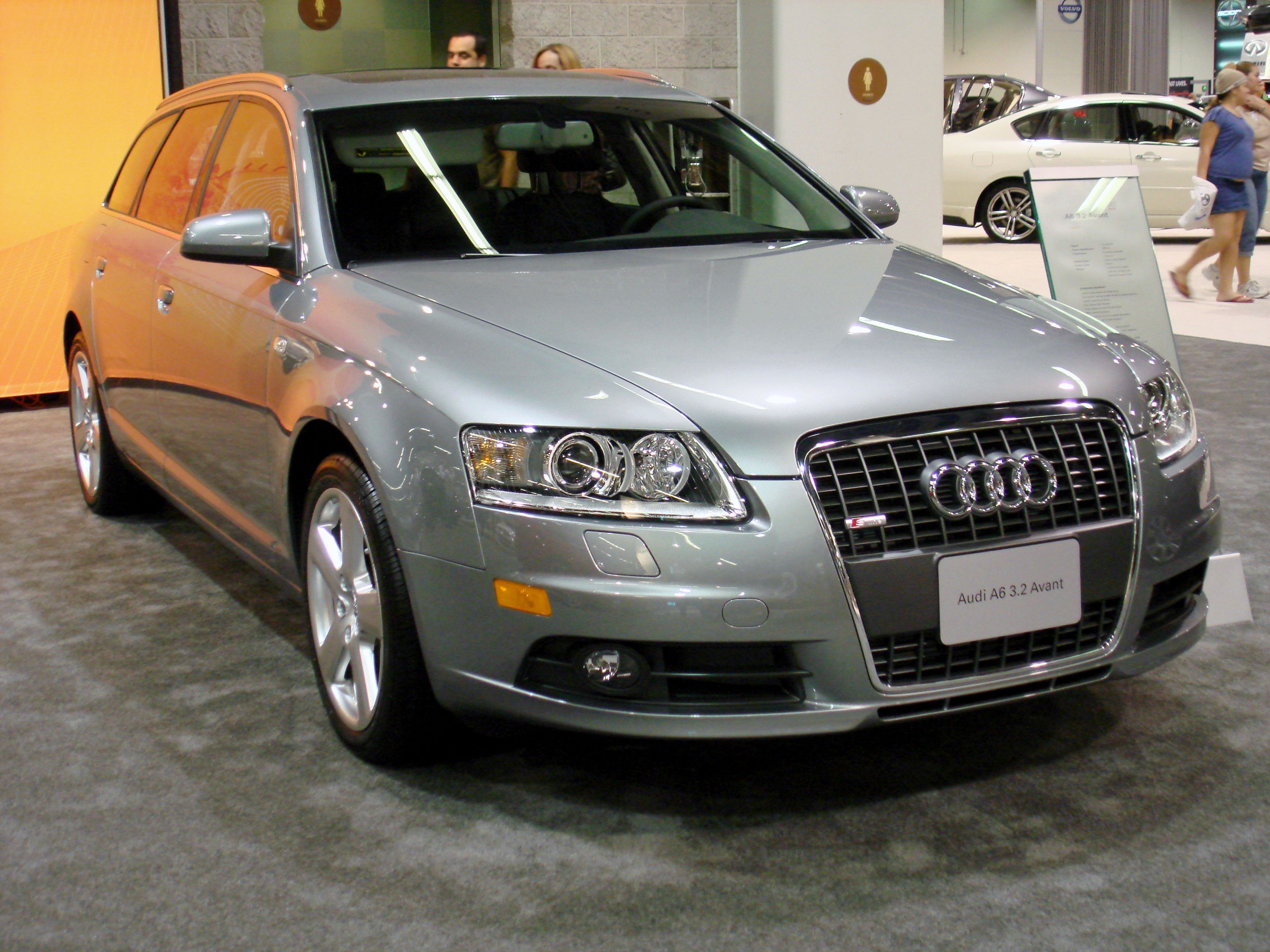 Audi A6 Avant2006 OC Auto Show